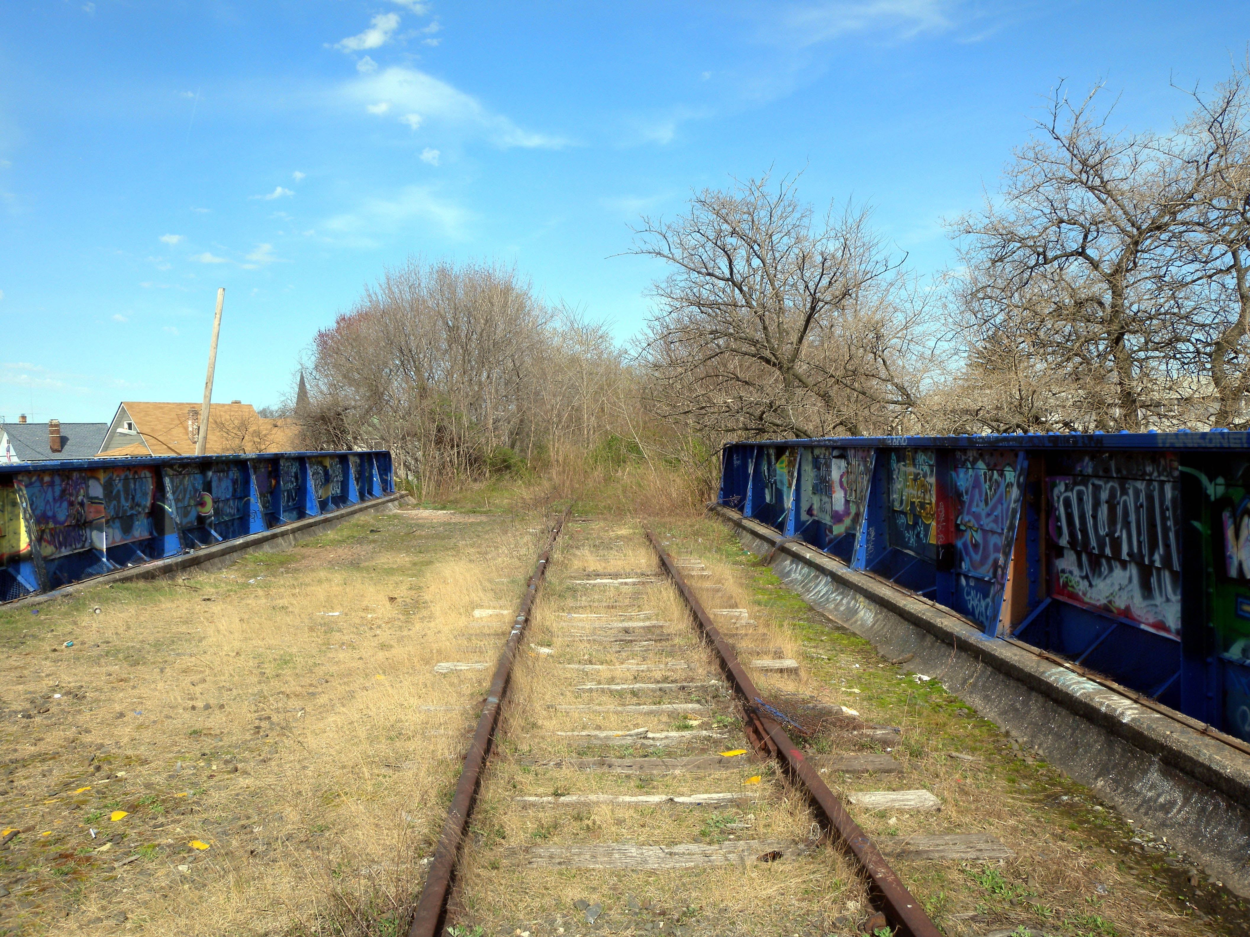 Looking northeast along Nicholas Avenue overpass on a sunny early afternoon.